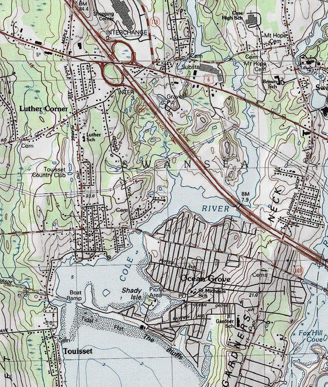 Map of Cole River, Swansea, Massachusetts from USGS Quadrangle Map (1:24,000 scale)